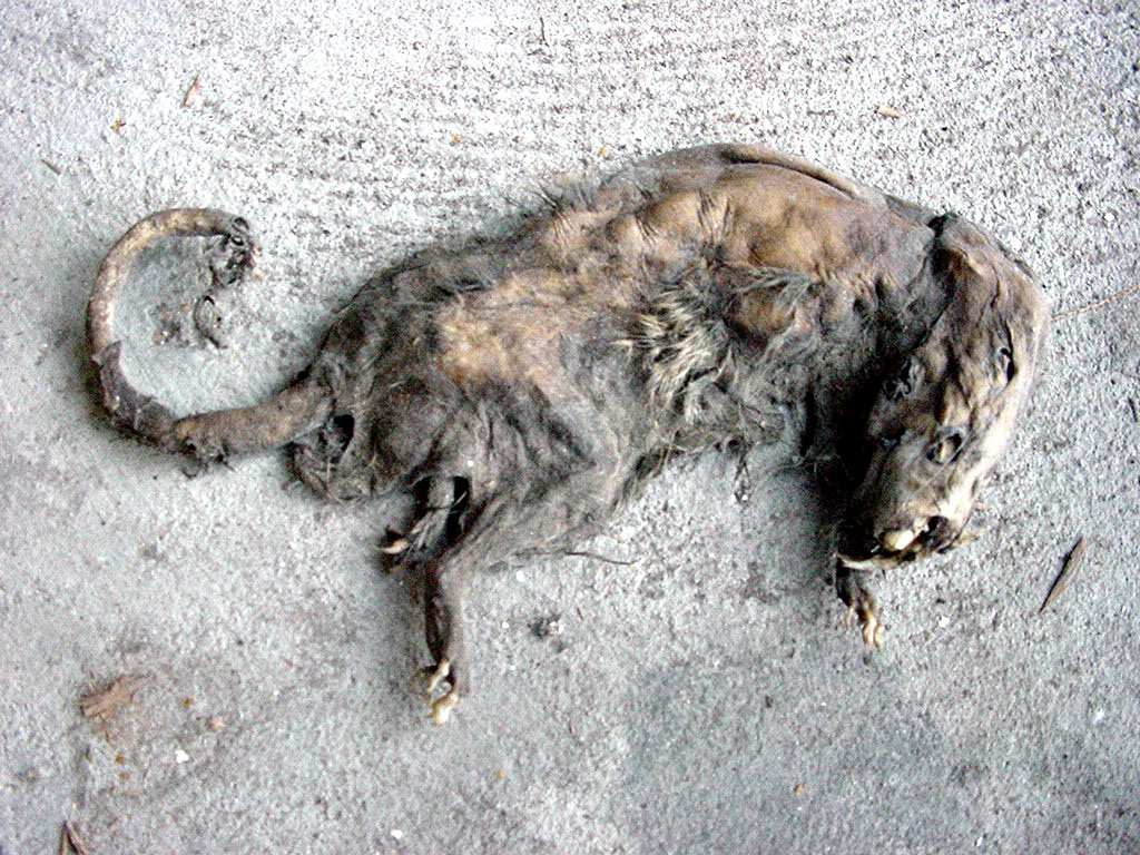 Death rat (poisonned), and naturally mummified